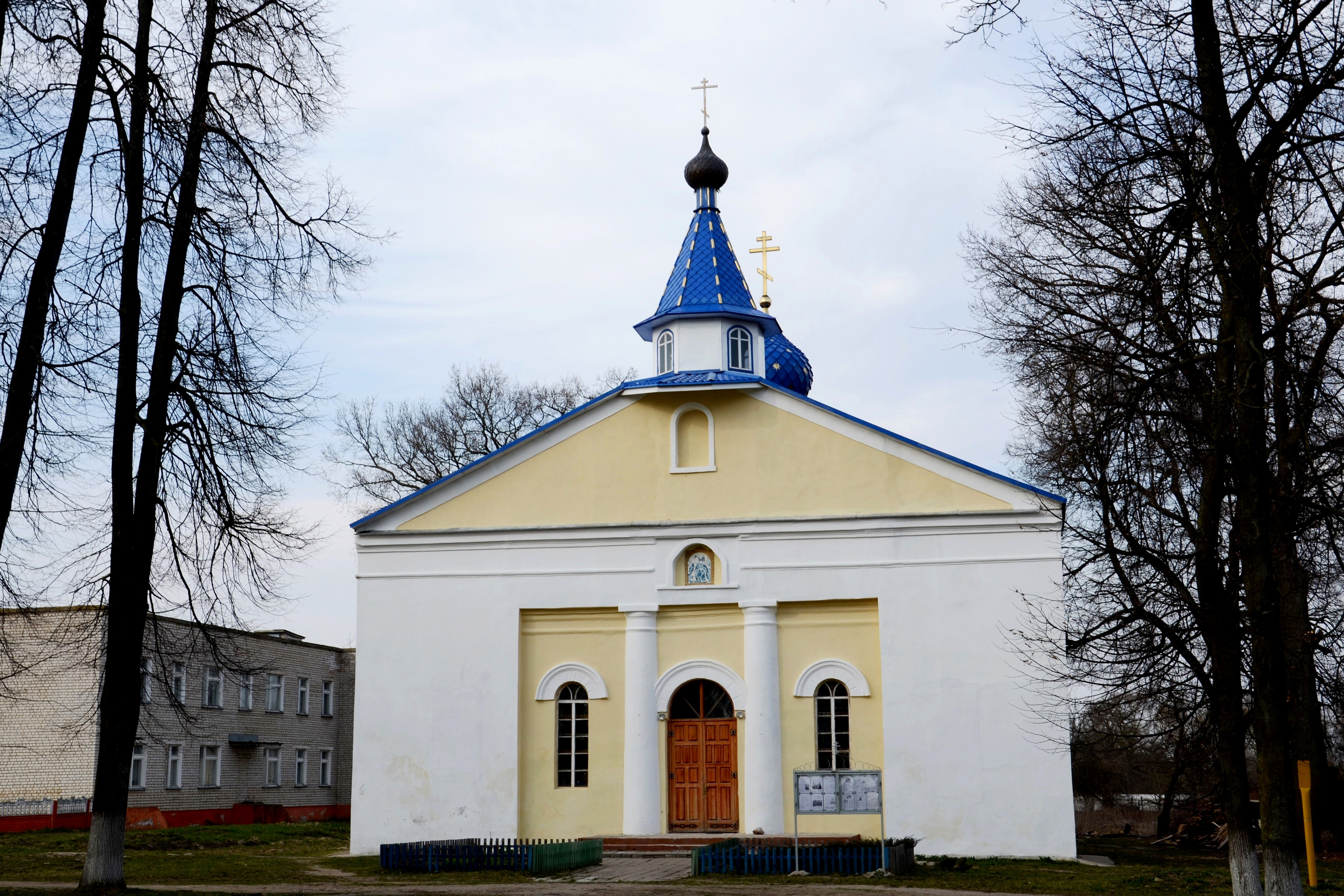 Church of Elias Prophet in Dukora